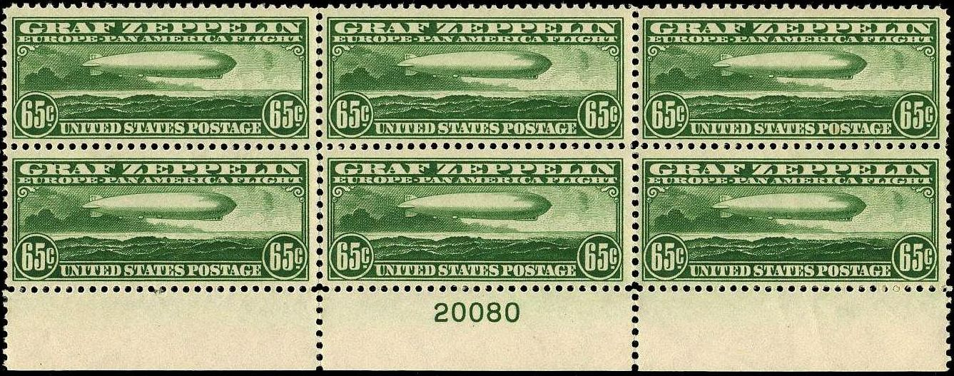 Image of 65-cent Graf Zeppelin plate block